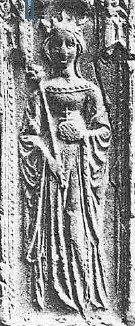 Maria López de Luna